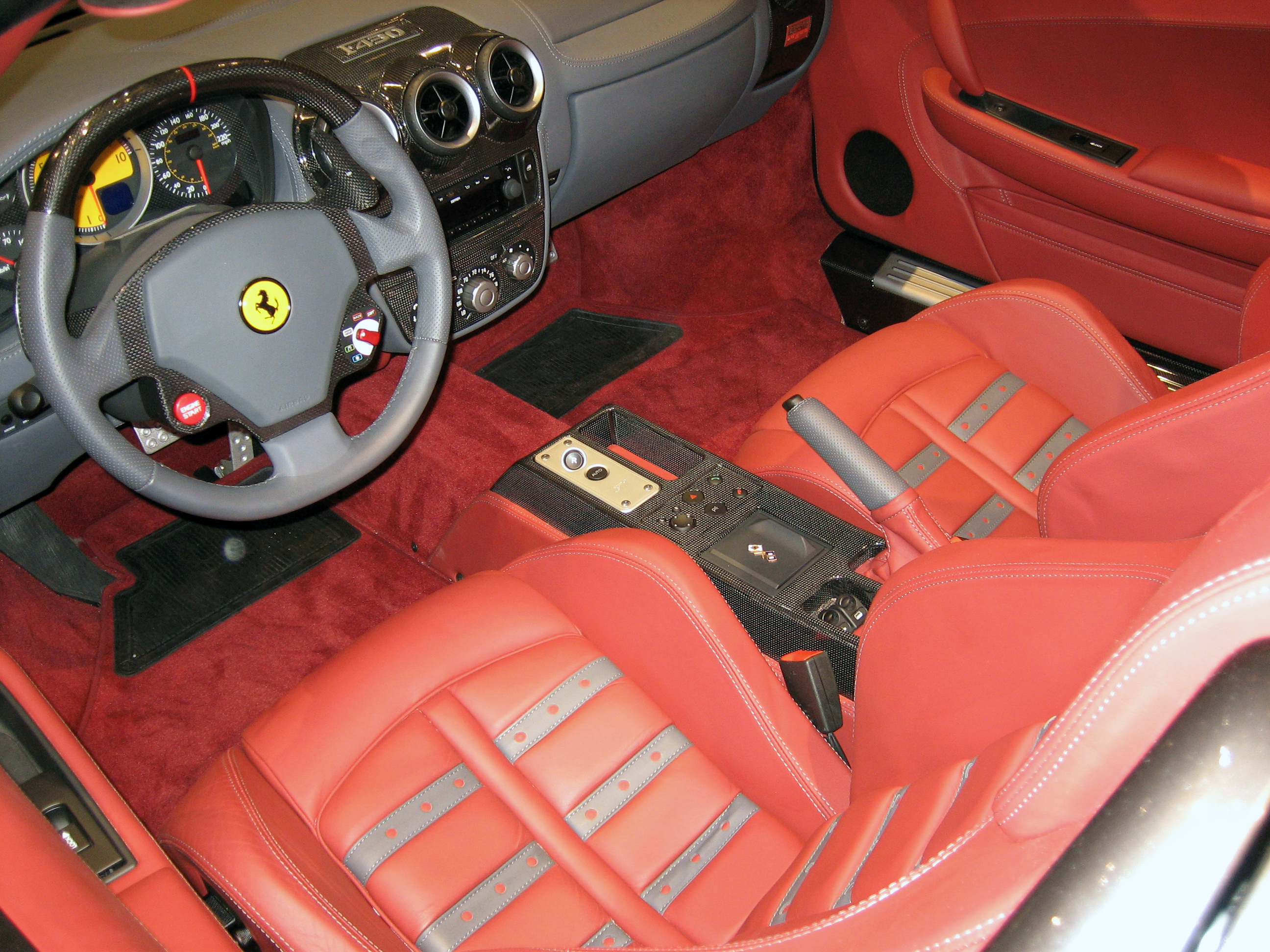 The interior of a Ferrari F430 at the 2006 Chicago Auto Show